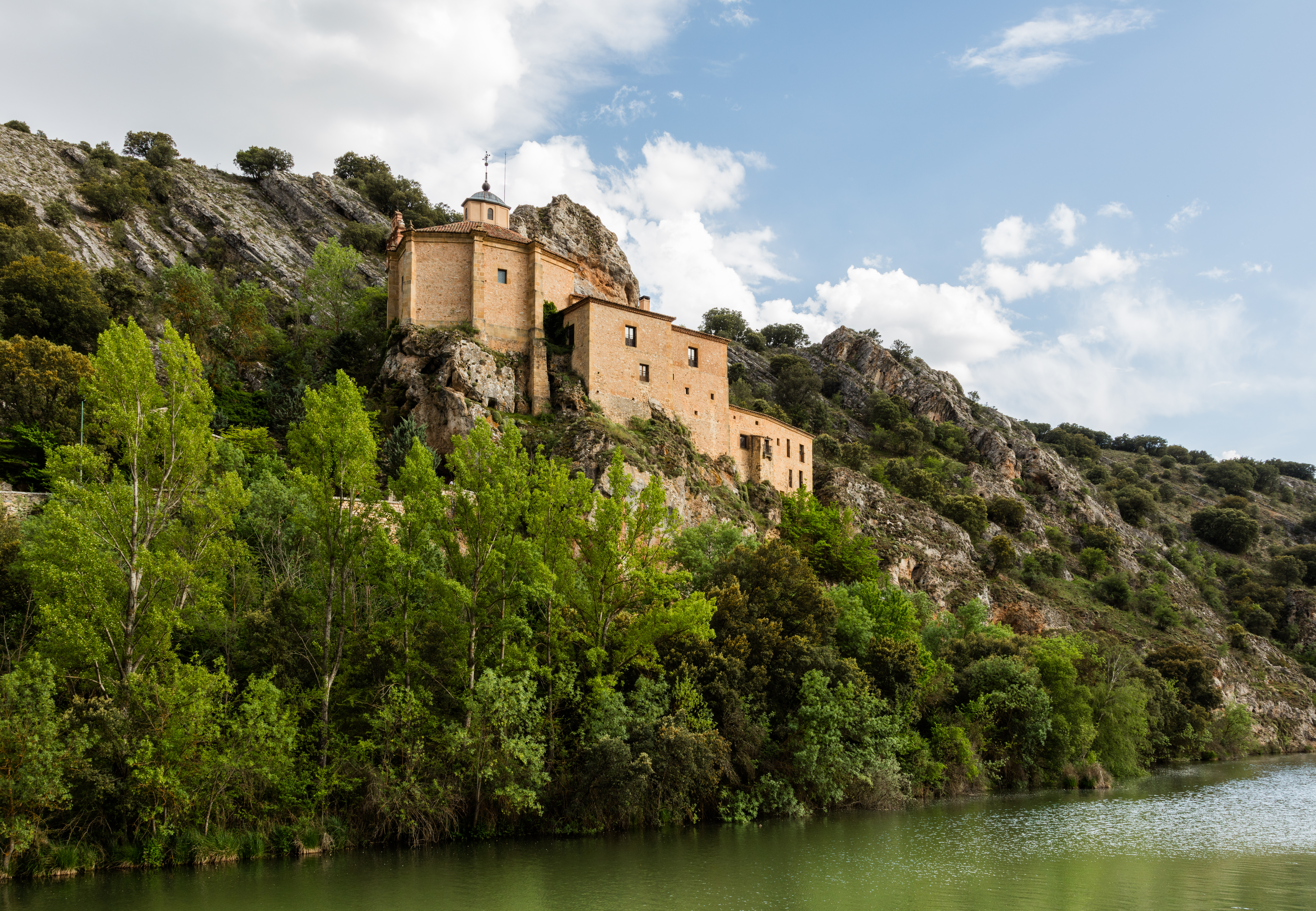 Hermitage of St Saturio, Soria, Spain